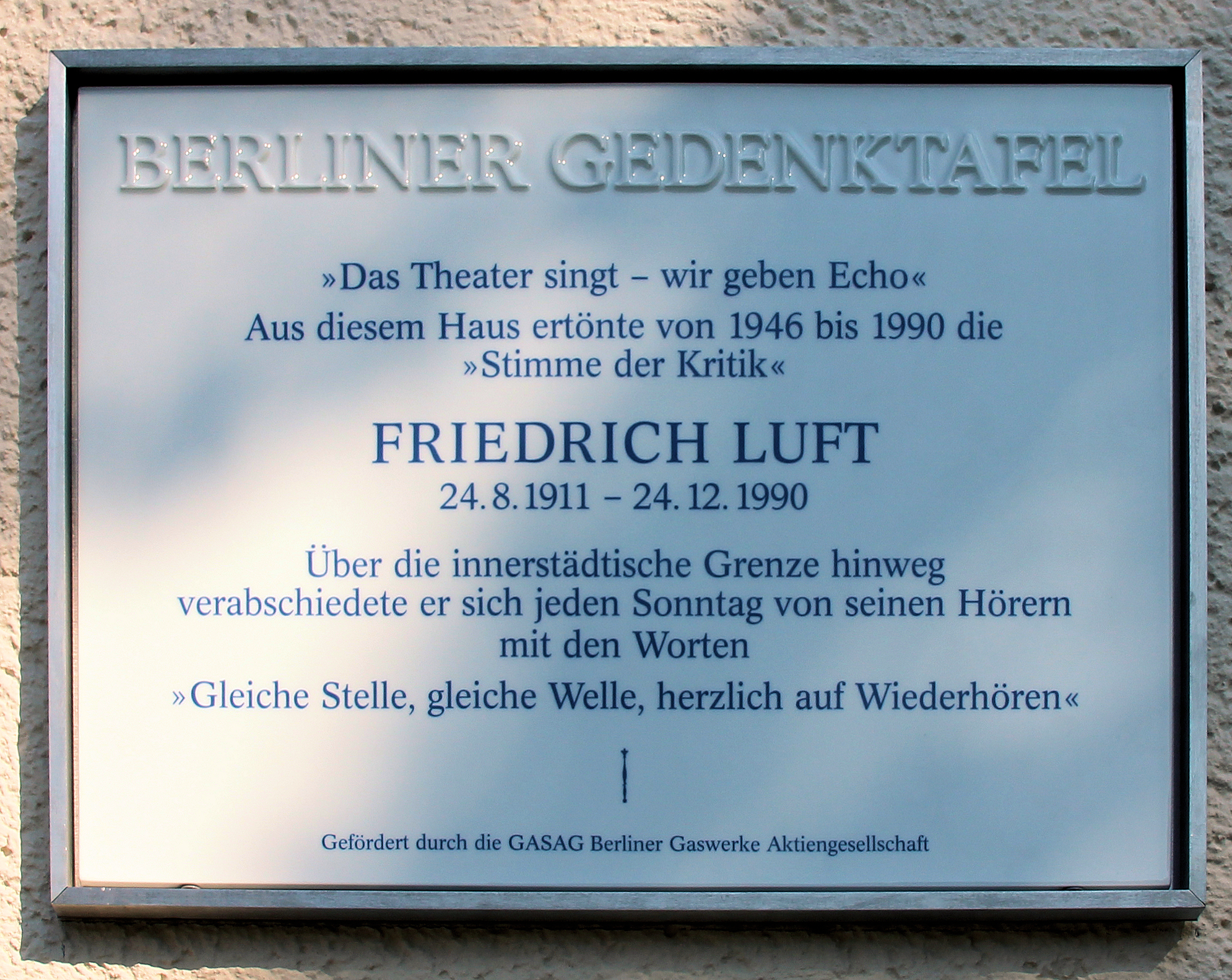 Berlin memorial plaque, Friedrich Luft, Hans-Rosenthal-Platz 1, Berlin-Schöneberg, Germany